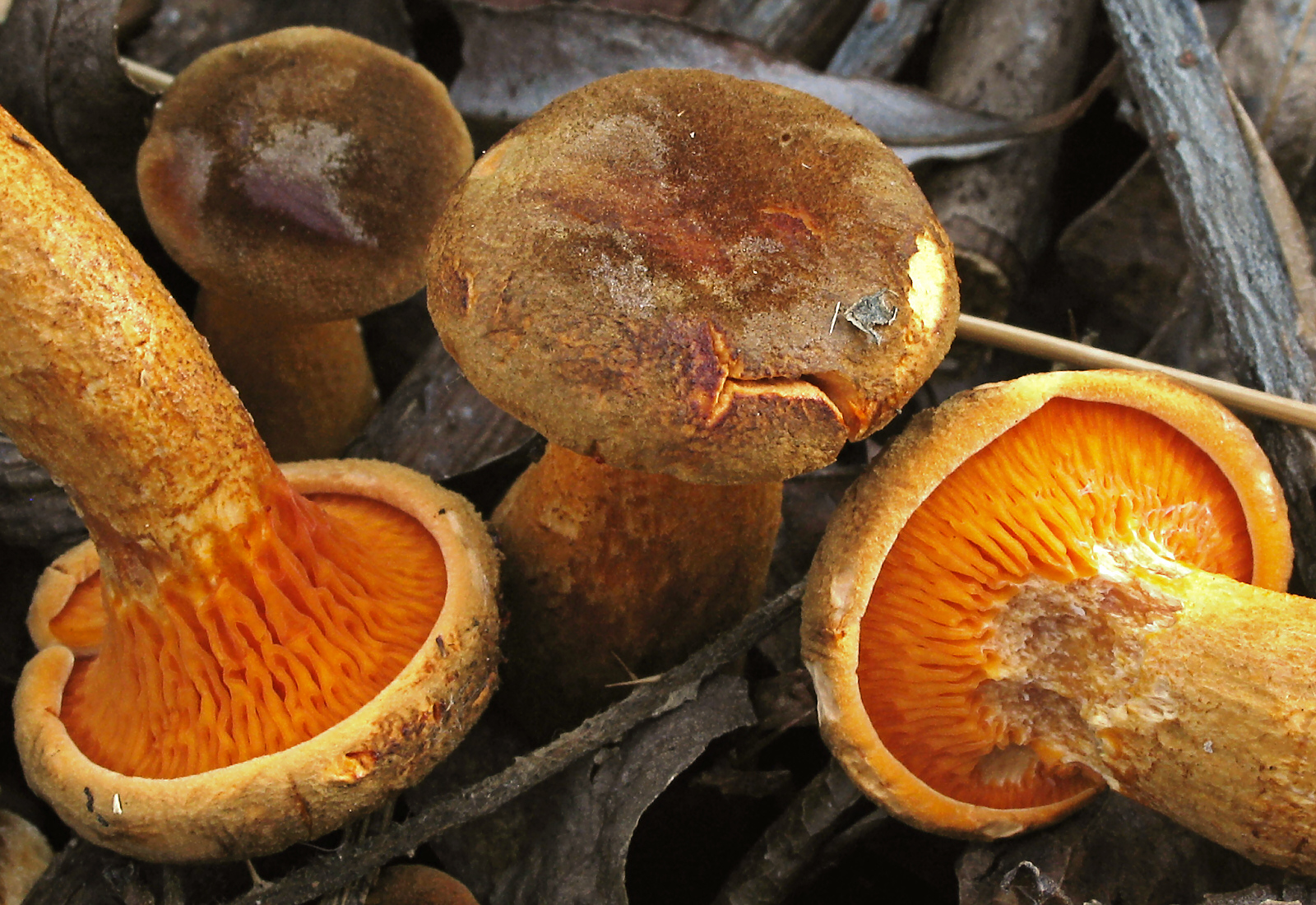 Hygrophoropsis aurantiaca (Wulfen) Maire